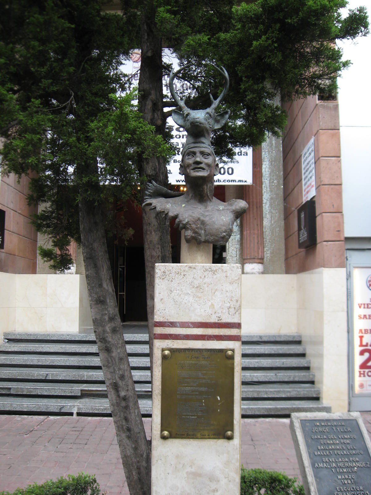 Sculpture in memory of deer dancer Jorge Tyler on display on Genova Street in the "Zona Rosa" in Mexico City. Sculpted by Francisco Perez Martinez